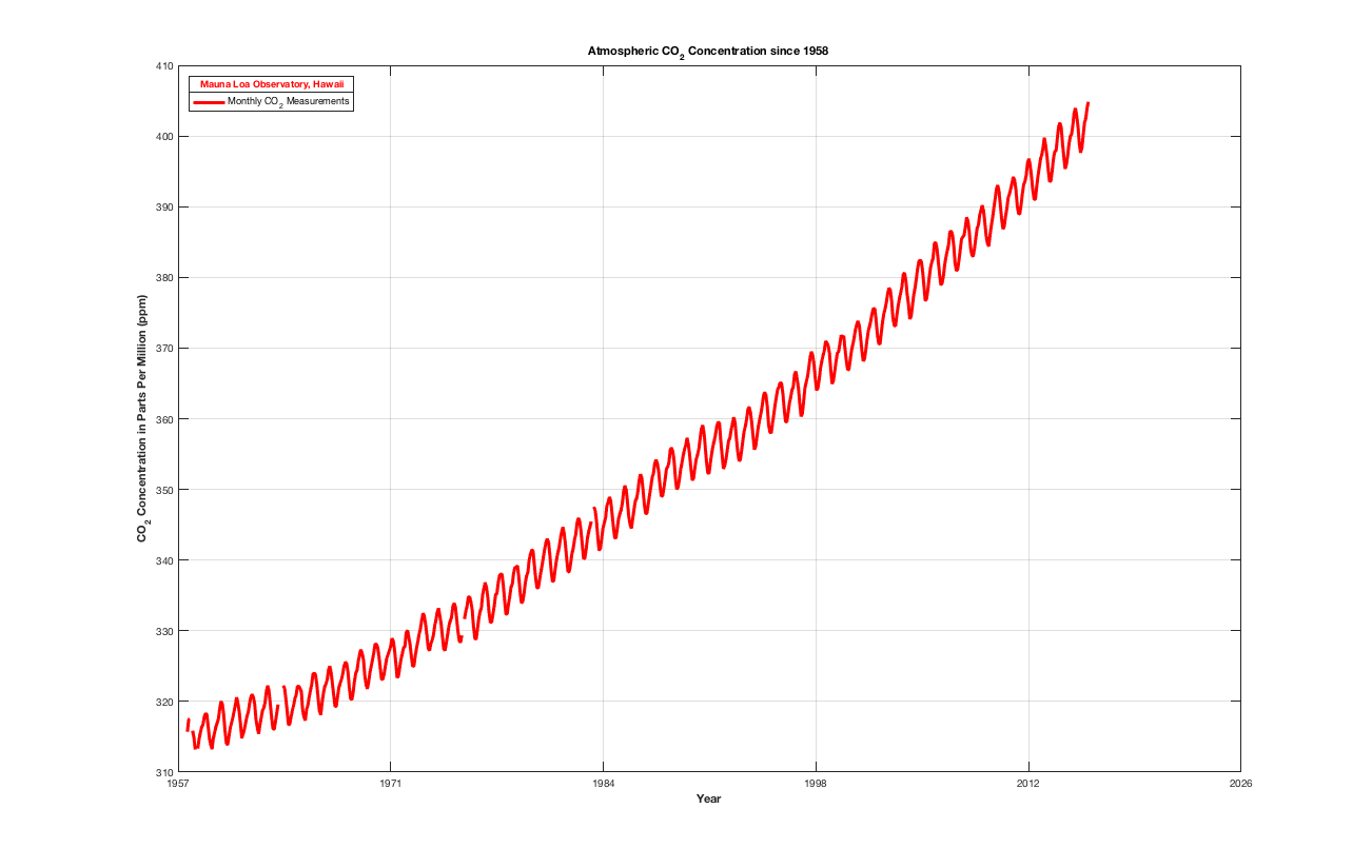 Atmospheric CO2 Concentration at Mauna Loa (1958—2016), Wide.